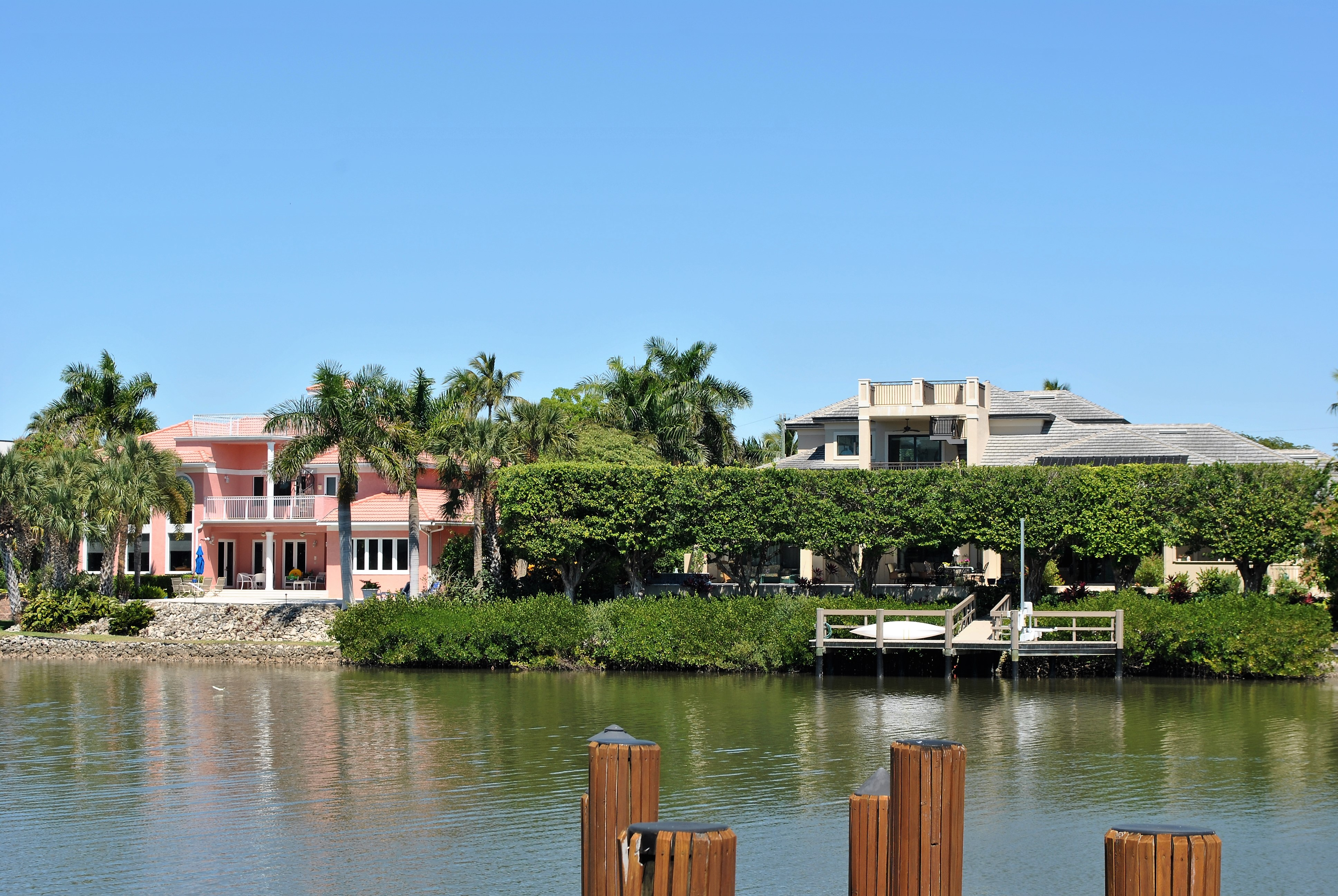 Image originally published in Queer Places: Retracing the Steps of LGBTQ people around the World Authored by Elisa Rolle